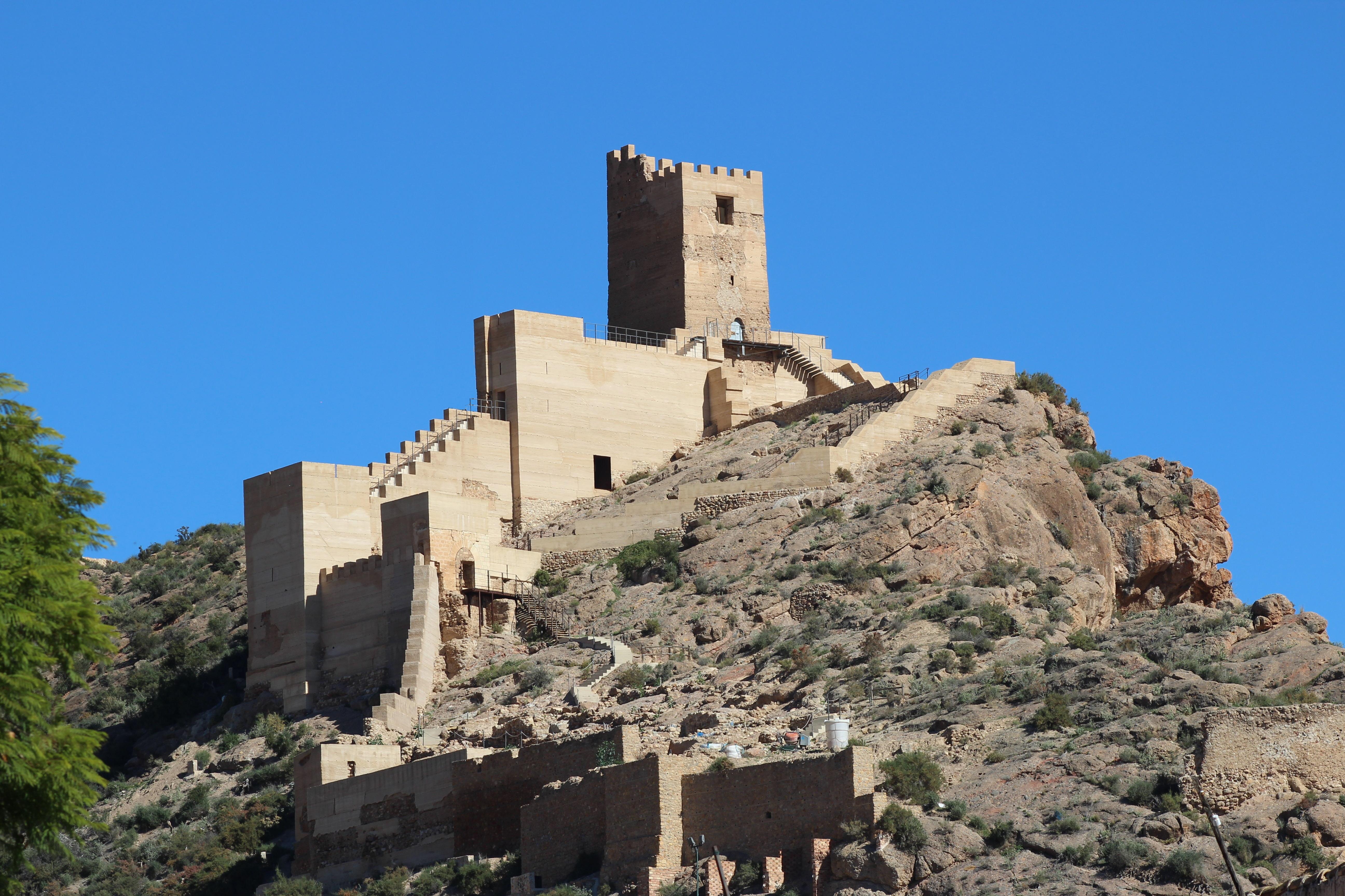 Castillo de Alhama from Plaza America, Alhama de Murcia. Originally built in the 11th and 12th of Moorish origin and passed into Christian hands with the conquest of Granada in 1491. Therafter it was allowed to fall into ruin. It was declared a BIC (Asset of Cultural Interest) in 1985 and is currently under restoration.